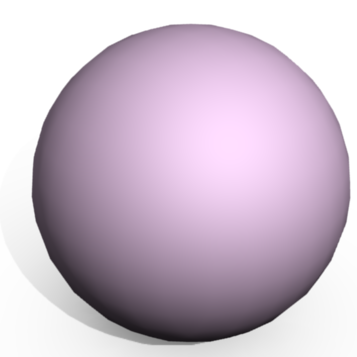 A Blender Meta Object (meta ball)